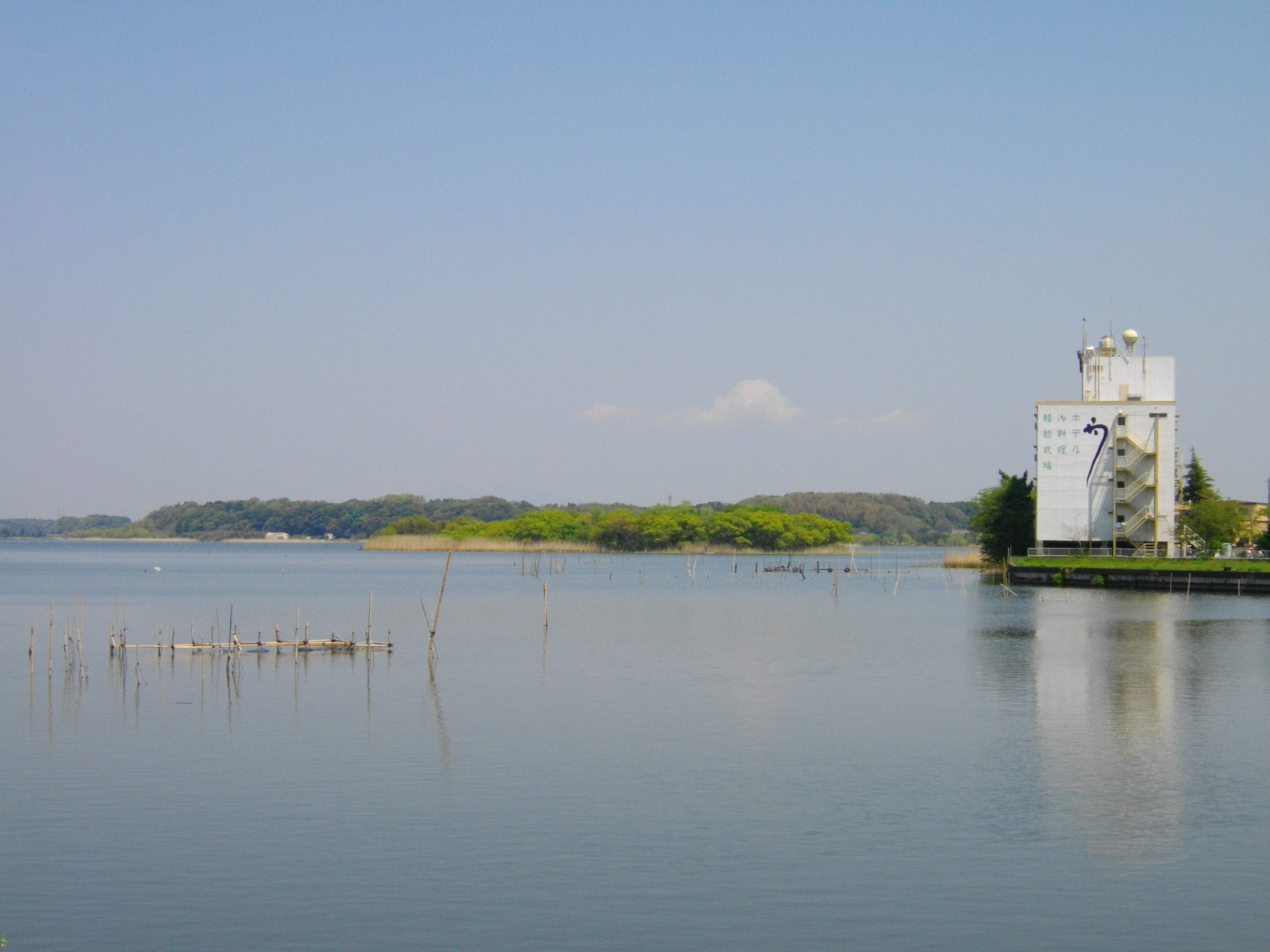 Ushiku-numa